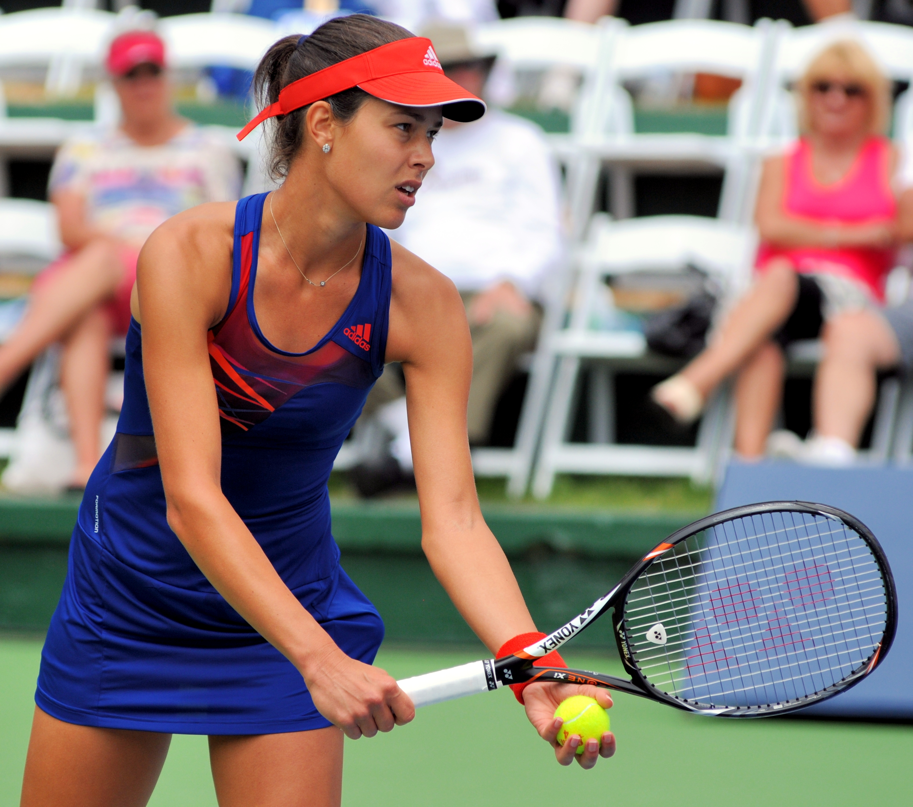 Ana Ivanovic - 1st Round 2013 Southern California Open